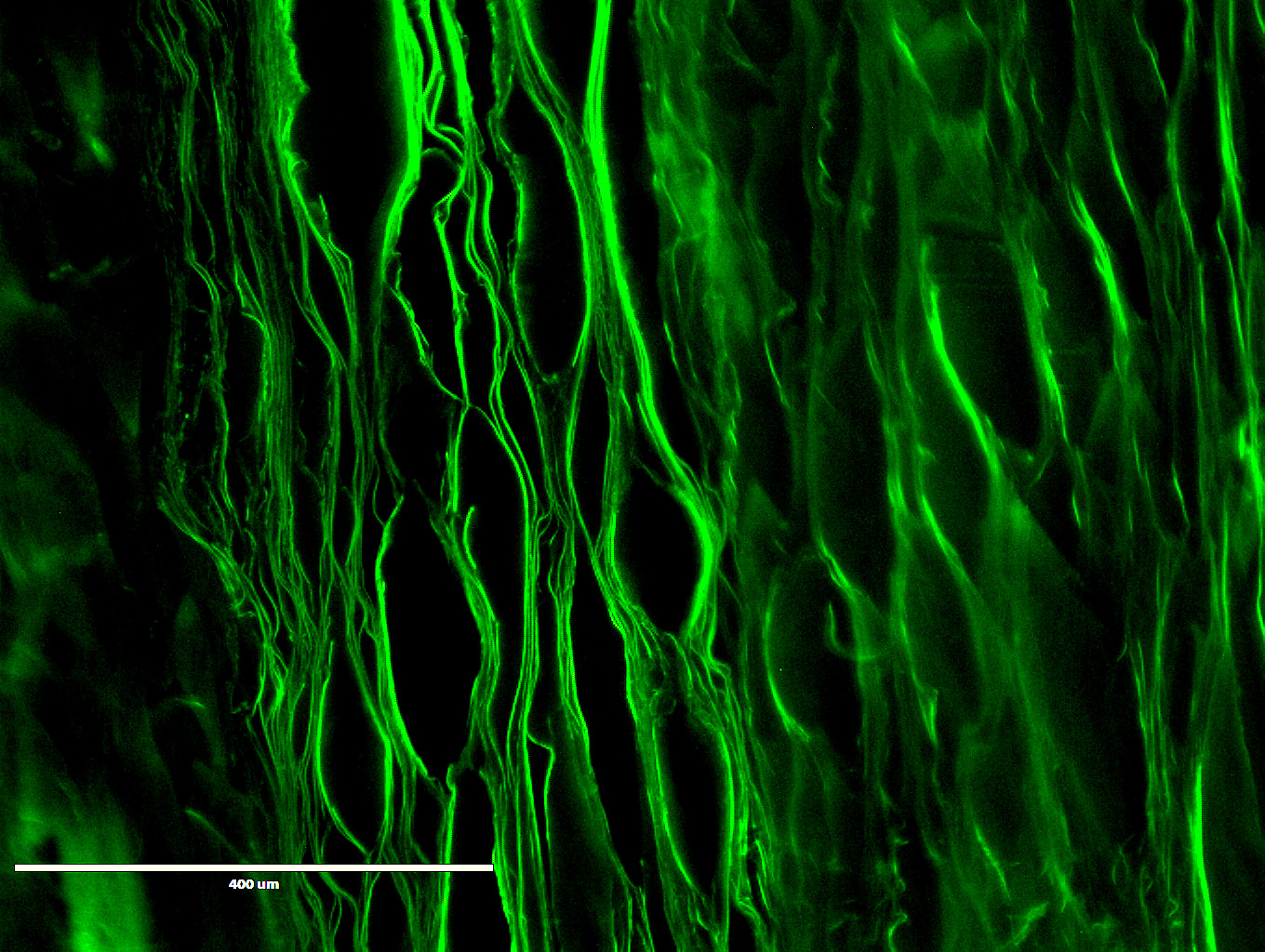 Lamellar scaffold prepared from silk fibroin for inter vertebral disc tissue engineering. This lamellar structure mimic the structural environment of IVD.